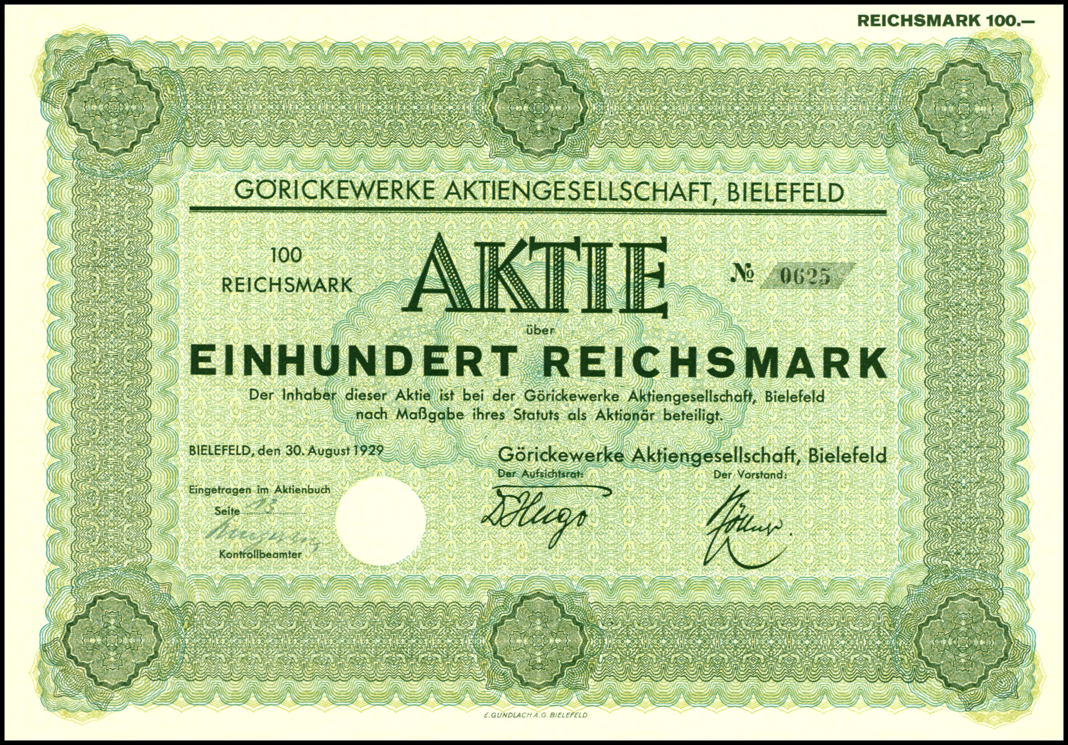 Share of the Görickewerke AG, issued 30. August 1929